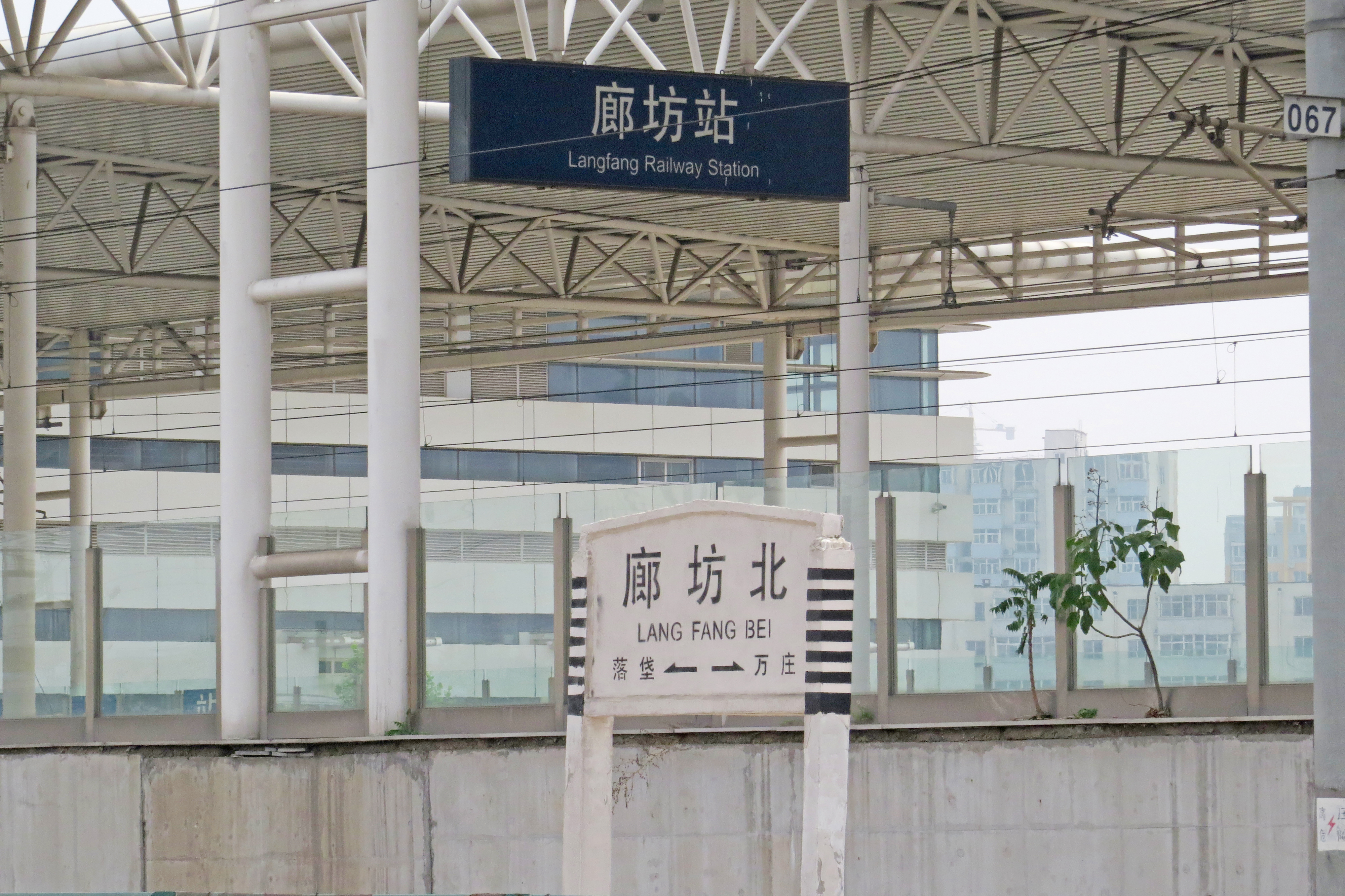 Two separate stations, just a meter away... It just reminded me of Chongqingbei Railway Station, which is currently (de facto) a mixture of two railway stations.